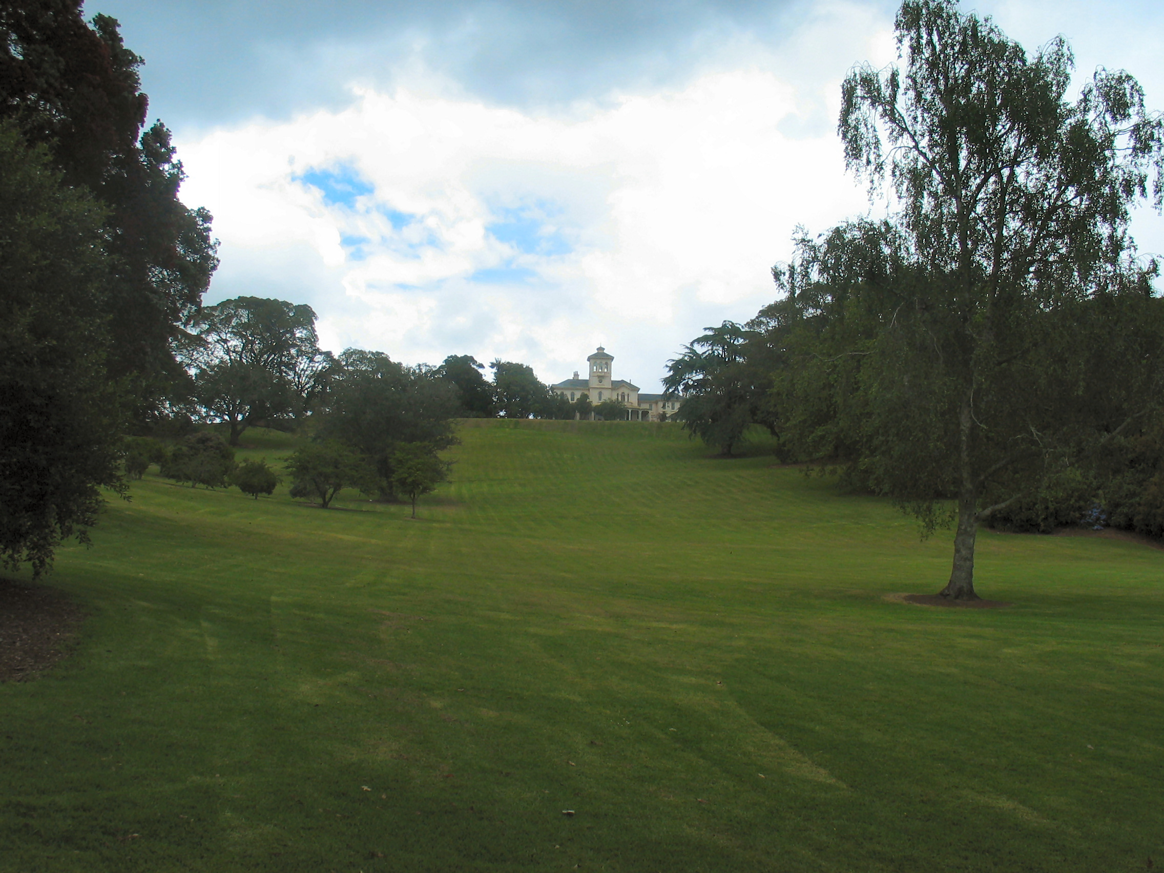 Monte Cecilia Park, Hillsborough, Auckland, New Zealand